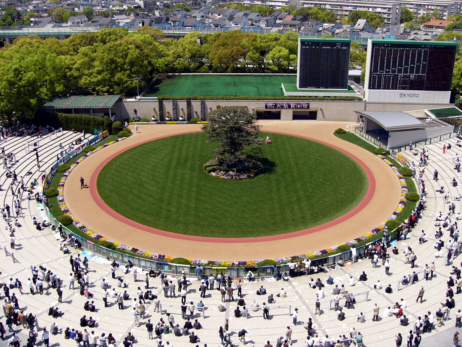 Kyoto racecourse paddock